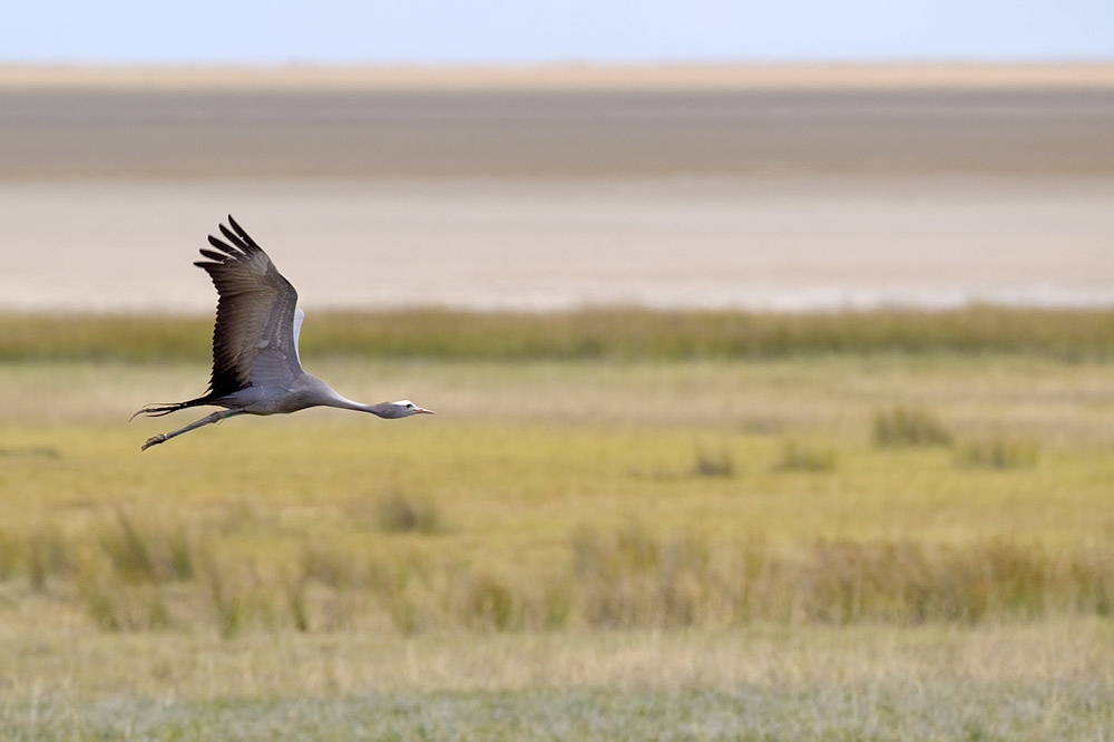 Blue crane in Salvadora, Etosha